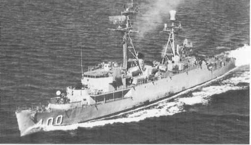 The U.S. Navy radar picket destroyer escort USS Hissem (DER-400). The Hissem was a Edsall-class destroyer escort and and was served as a radar picket ship from 1956 to 1970. She was finally suk as a target ship in 1982.